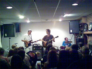 Semisonic performing a basement concert on 7/22/2006